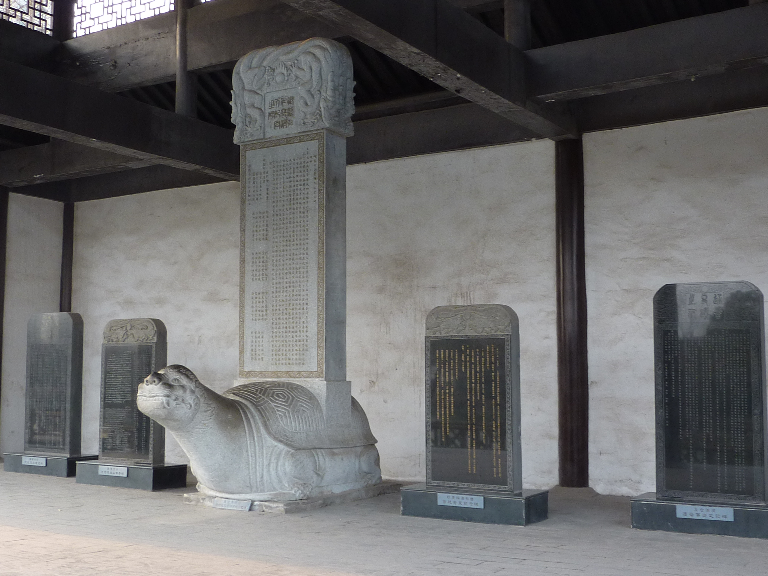 A pavilion with five steles (all modern replicas) associated with Zheng He's voyages and various events along it. The steles, left to right, are: (1) Stele from Tianfei Ling, Changle (near Fuzhou), Fujian; (2) The trilingual stele from Galle, Ceylon; (3) The tortoise-borne stele from Tianfei Gong, Nanjing; (4) Stele from Guli (Calicut); (5) Stele from Liujia Harbor in Taicang, Suzhou, Jiangsu